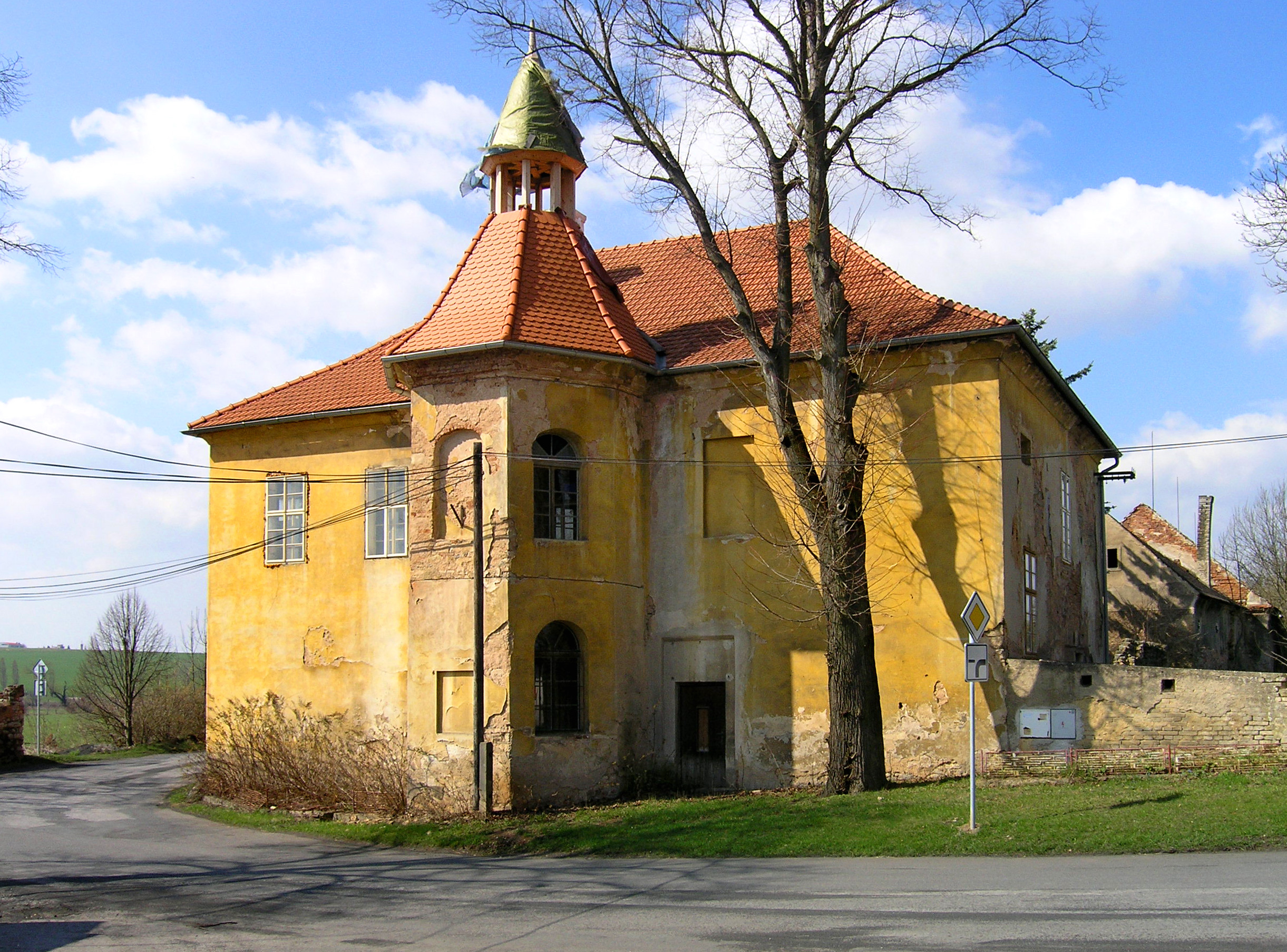 Common in Lužce village, Czech Republic